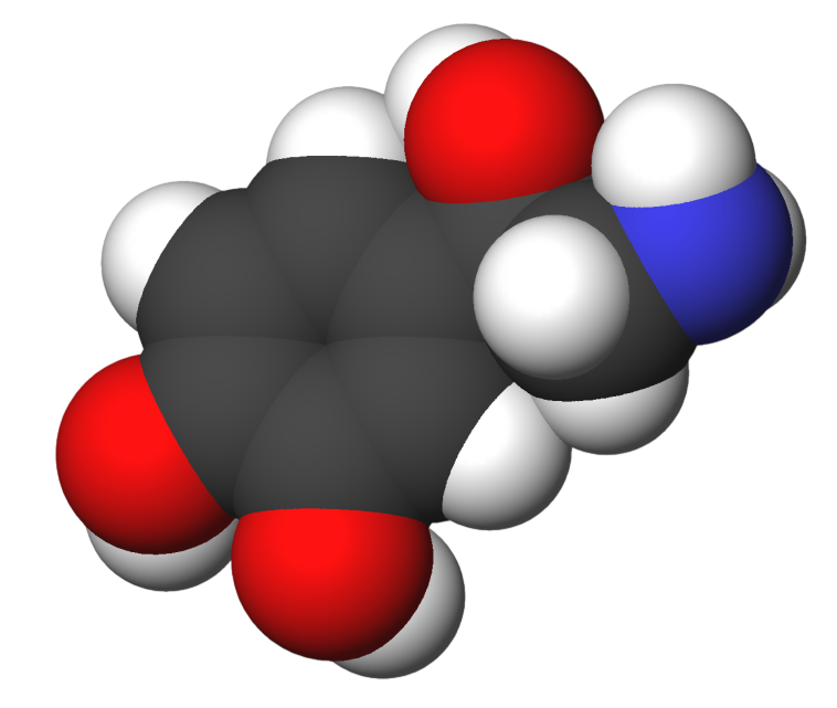 Norepinephrine